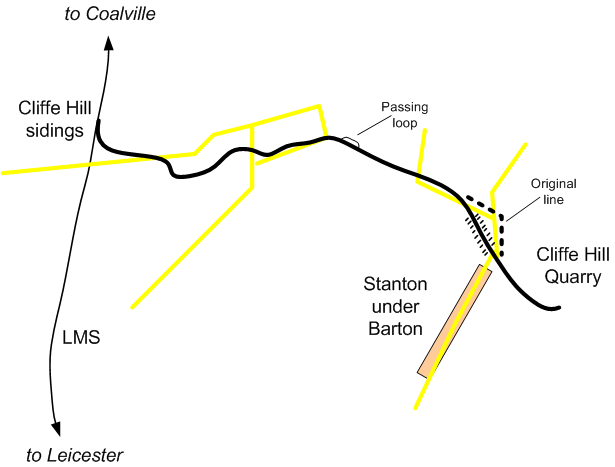 Map of the Cliffe Hill Mineral Railway Author: Dan Crow